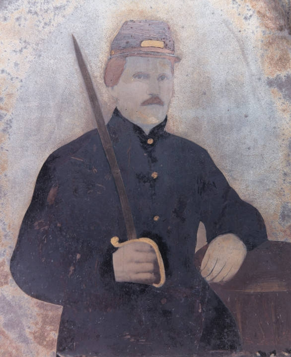 Painted tintype of Samuel Spencer Ives, a colonel of the 35th Alabama Infantry, C.S.A., Alabama Department of Archives and History Note: He was shot twenty-one time during the war and carried nine bullets to the grave